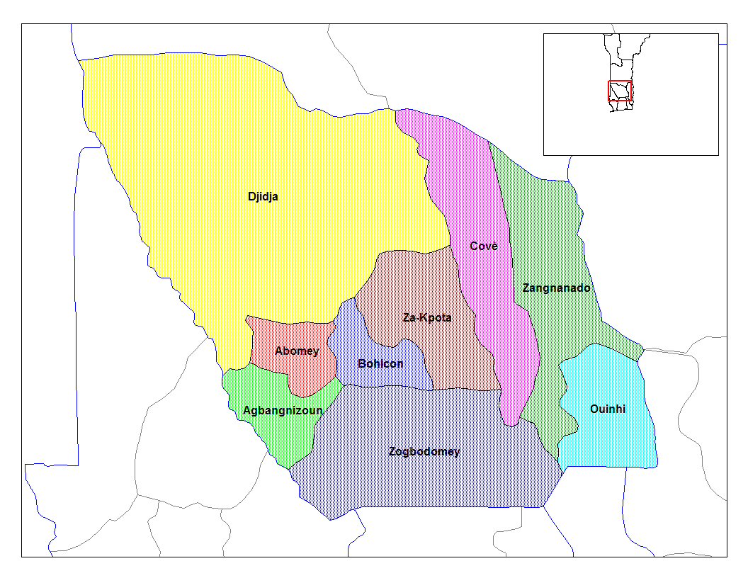 Map of the communes of the department of Zou, Benin. Created by Rarelibra for public domain use.